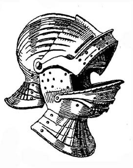 Double Visored Sallet (transitional to armet) the bevor and the forehead attched to the same pivot as the upper visor some version of this kind of sallet had additional nape protection under the tail